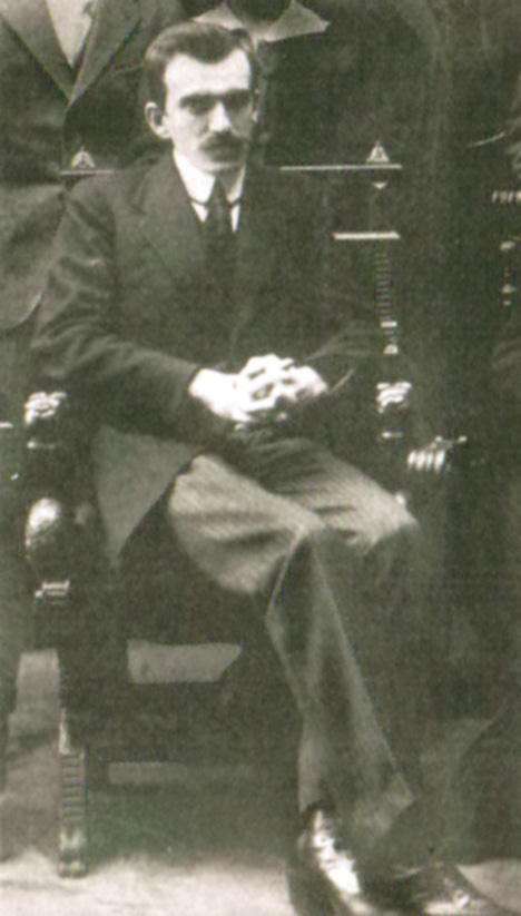 Oleksandr Shulhin - Ukrainian politician during Ukrainian National Republic